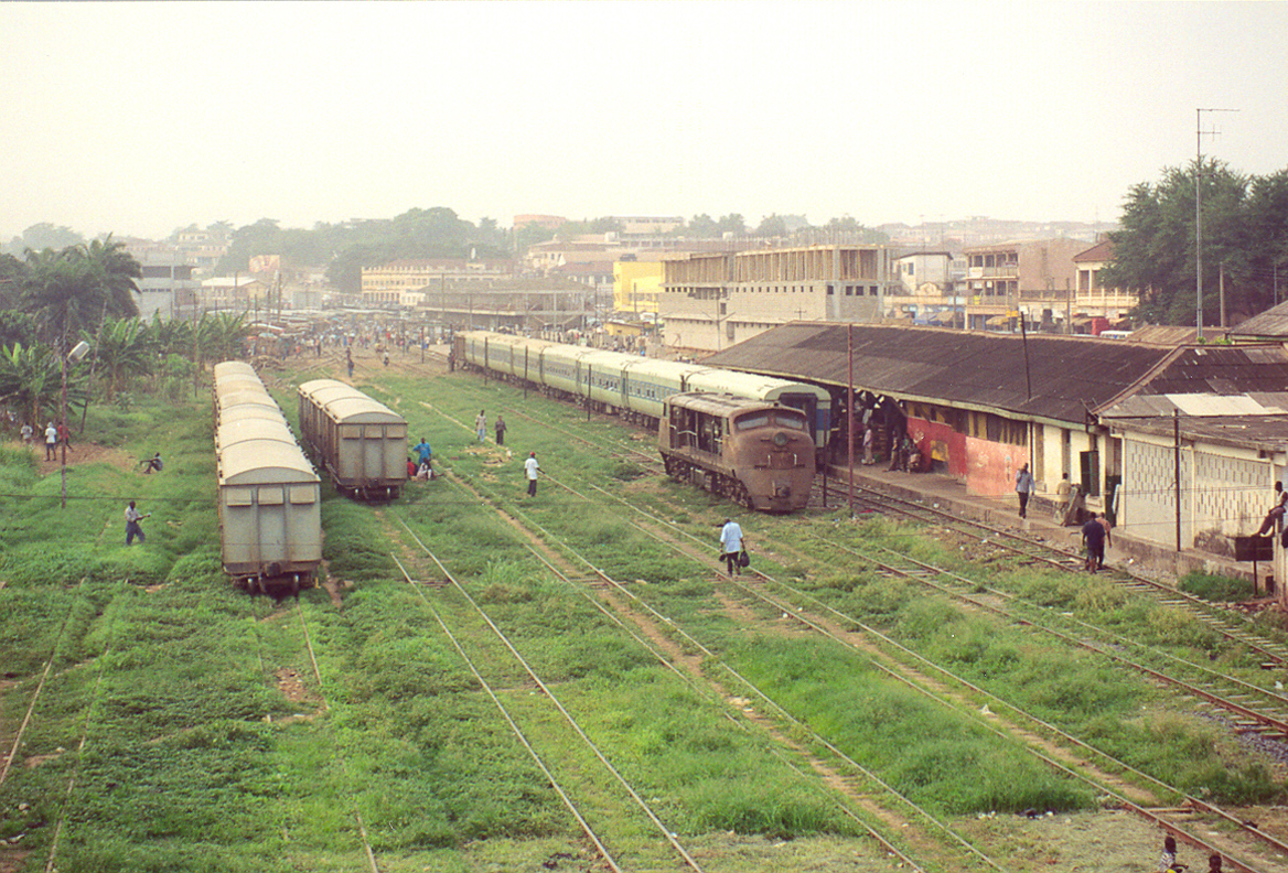 Kumasi railway station, the center of the Ashanti's kingdom.